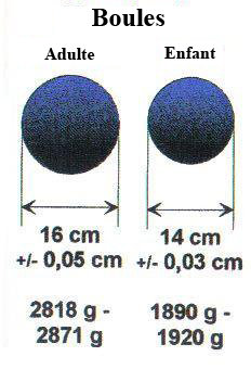 Size differences between pétanque boules for adults and children